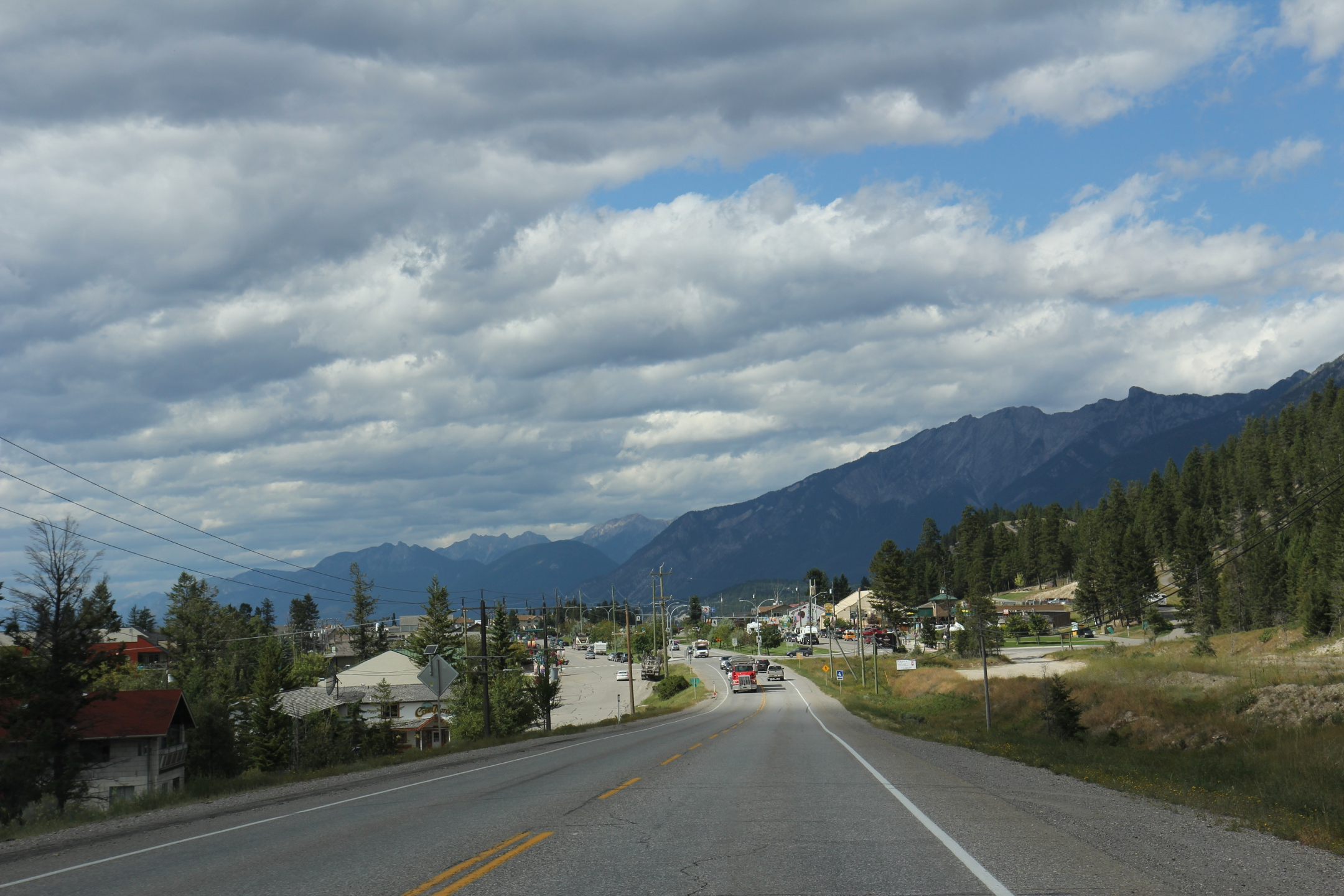 Looking north on BC93 / BC95 at Radium Hot Springs, BC.